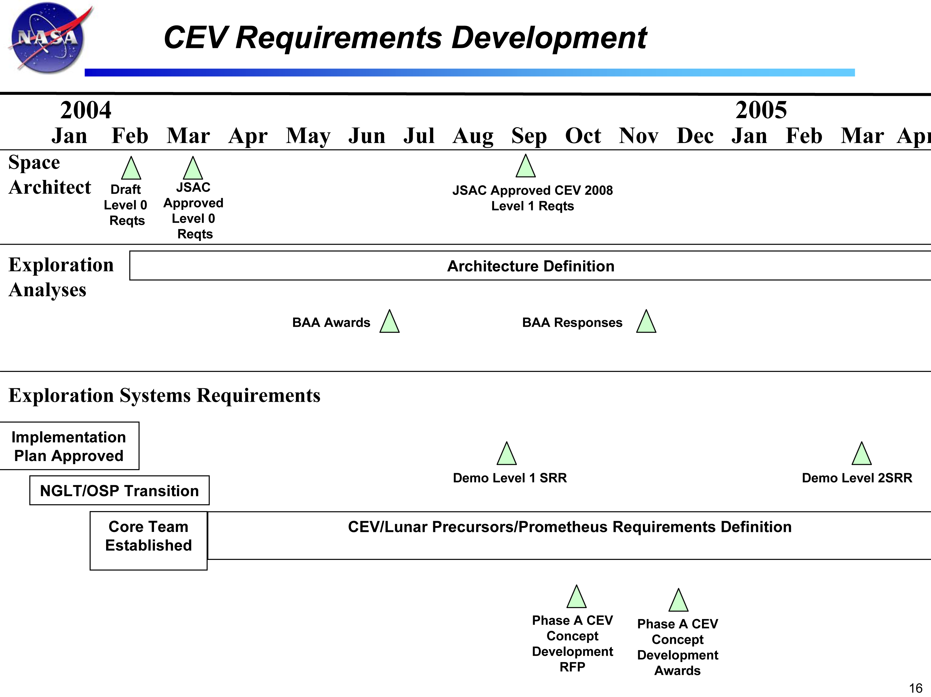 A chart taken from Briefing Charts: NASA Associate Administrator Craig Steidle, Office of Exploration Systems, 3 March 2004.